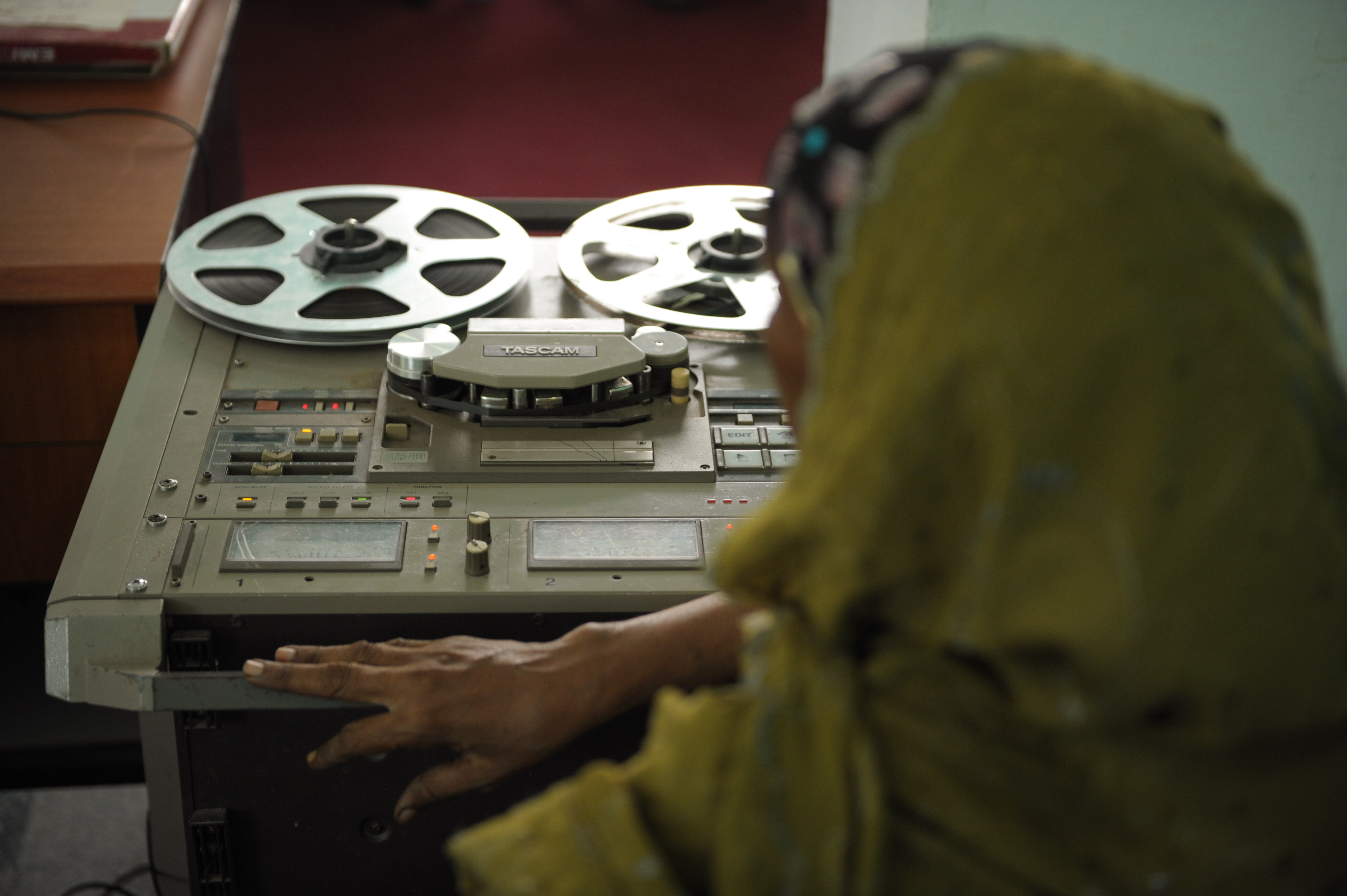 One of Radio Mogadishu's employees works a machine used to convert the archive's analog recordings into digital files on November 7 in Mogadishu, Somalia. The Minister of Information, Abdullahi Elmoge Hirsi, today visited Radio Mogadishu in order to see the ongoing digitalization of the station's archive, which was kept largely intact for over two decades of civil war and is now being converted into digital files to ensure its continued survival. AU UN IST PHOTO / Tobin Jones